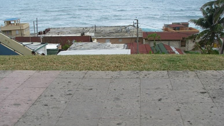 La Perla, San Juan, Puerto Rico, view from basketball court